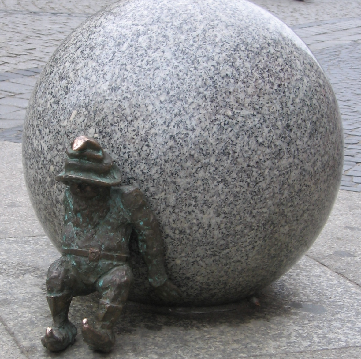 Sisyphers (Syzyfki) dwarves from Świdnicka.